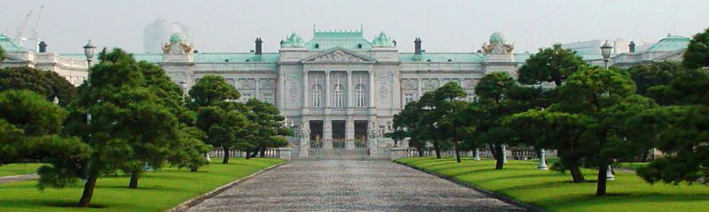 State Guest-House Akasaka Palace Main Entrance